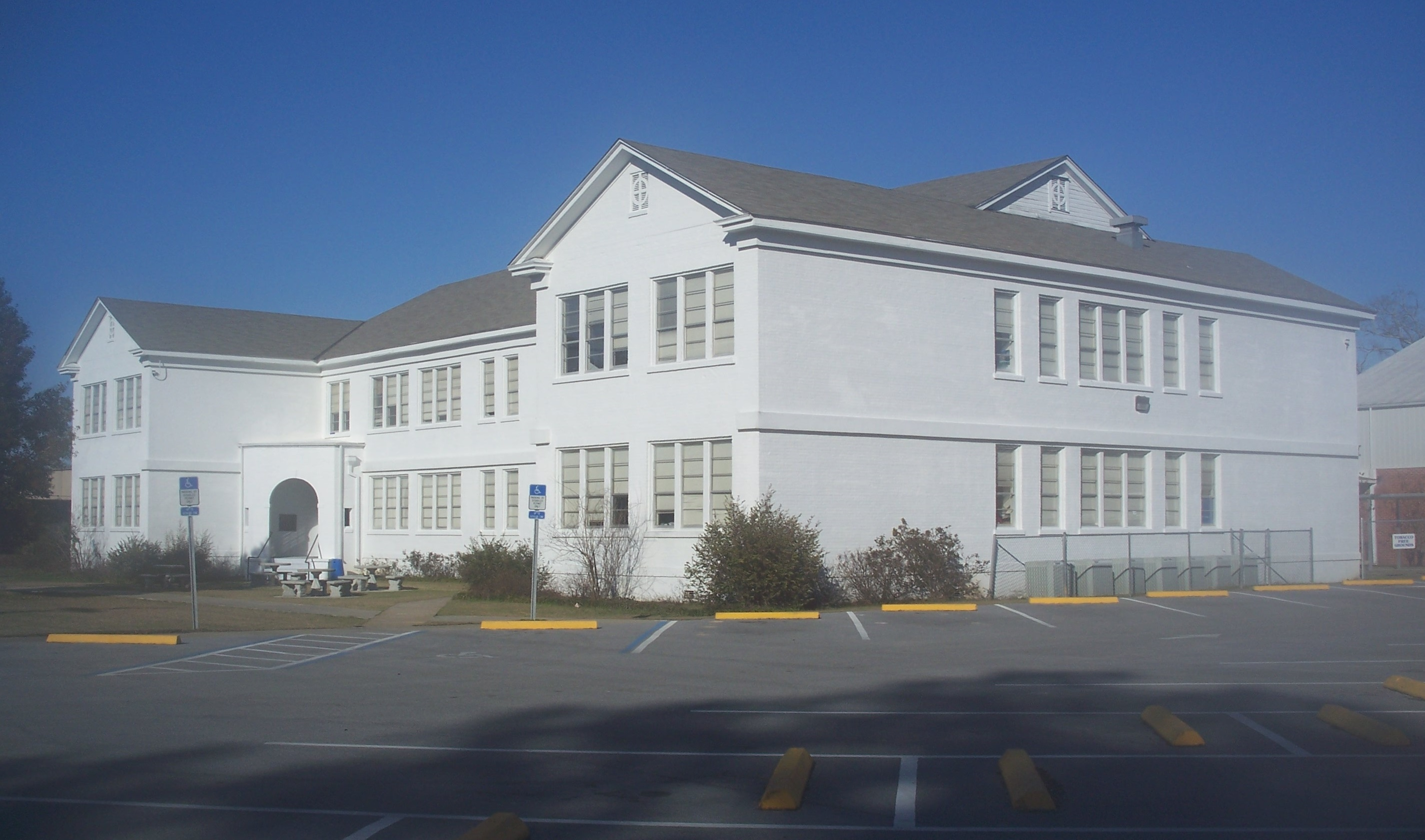 Altha, Florida: Altha School